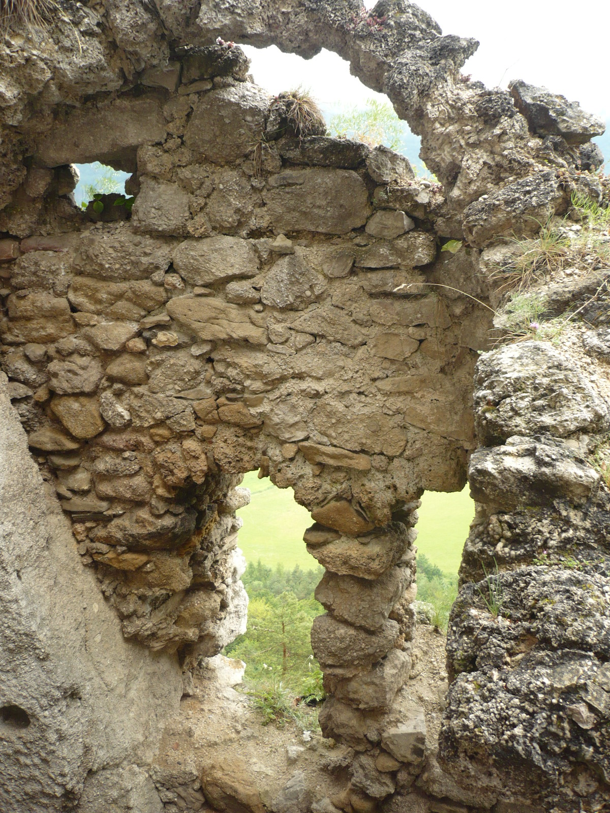 Súľov castle, Slovakia